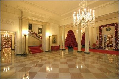 Cross Hall at Christmas time.